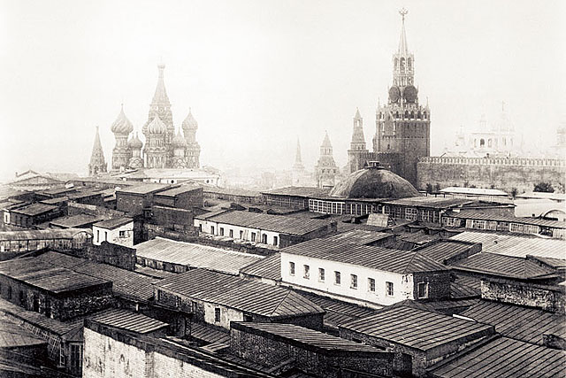 Old trade rows in Kitai-gorod, view towards Red Square